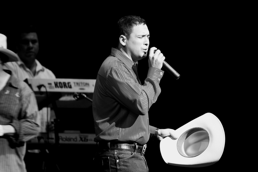 Bobby Pulido at the Chicano Festival 2011 Houston Tx.